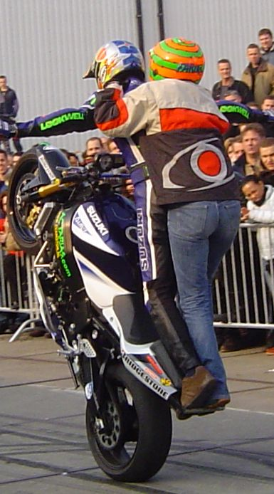 Stunt rider and passenger standing in the twelve o'clock bar.